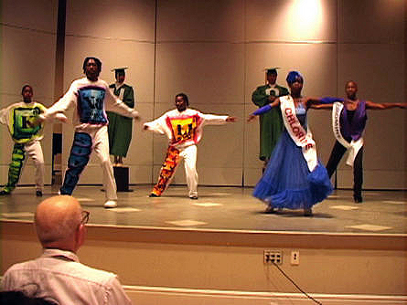 Students of Dr. Zafra M. Lerman's chemistry course at Columbia College Chicago dance to illustrate chemistry concepts at the 2001 Gordon Research Conference on Science Visualization and Education; photo by David Morton, choreography by Heidi Bauman Renteria